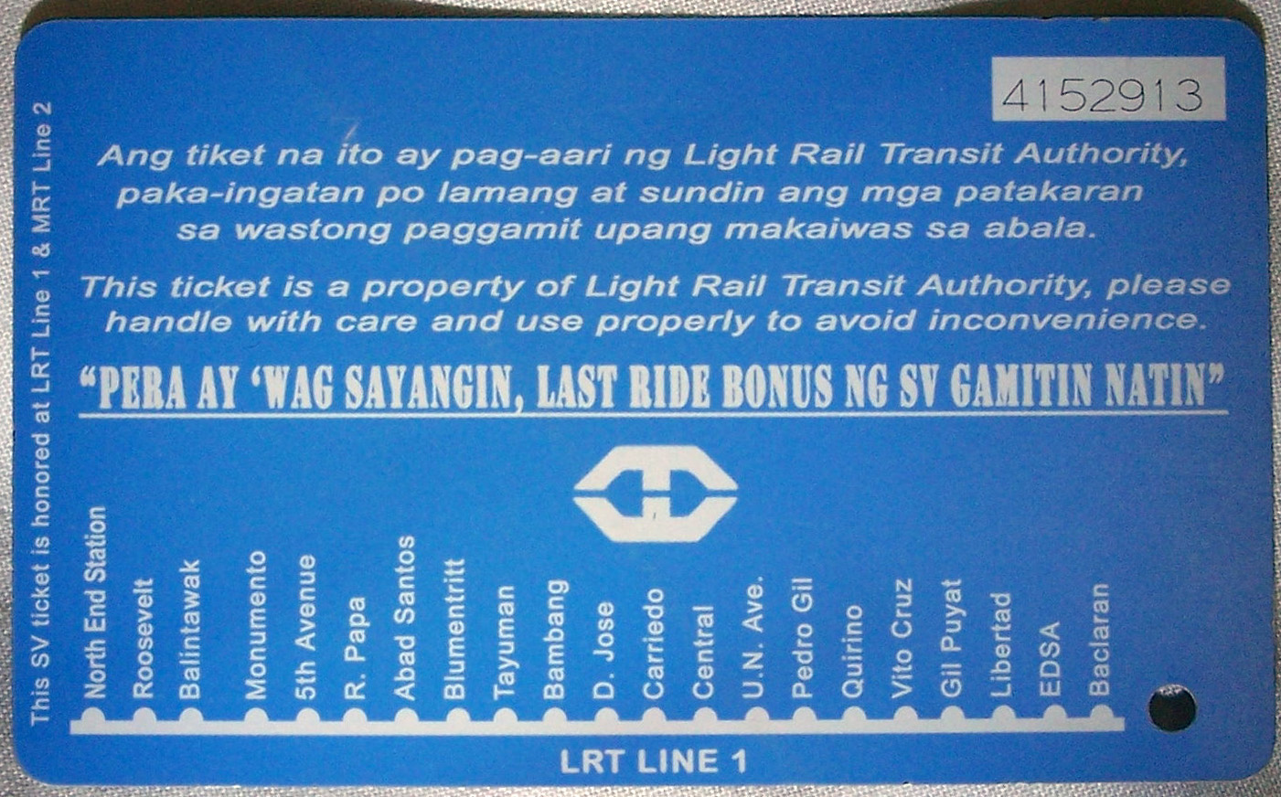 Stored value ticket of the Light Rail Transit Authority in Manila/Philippines, valid for rides on line LRT 1 and MRT 2. Backside of the ticket.